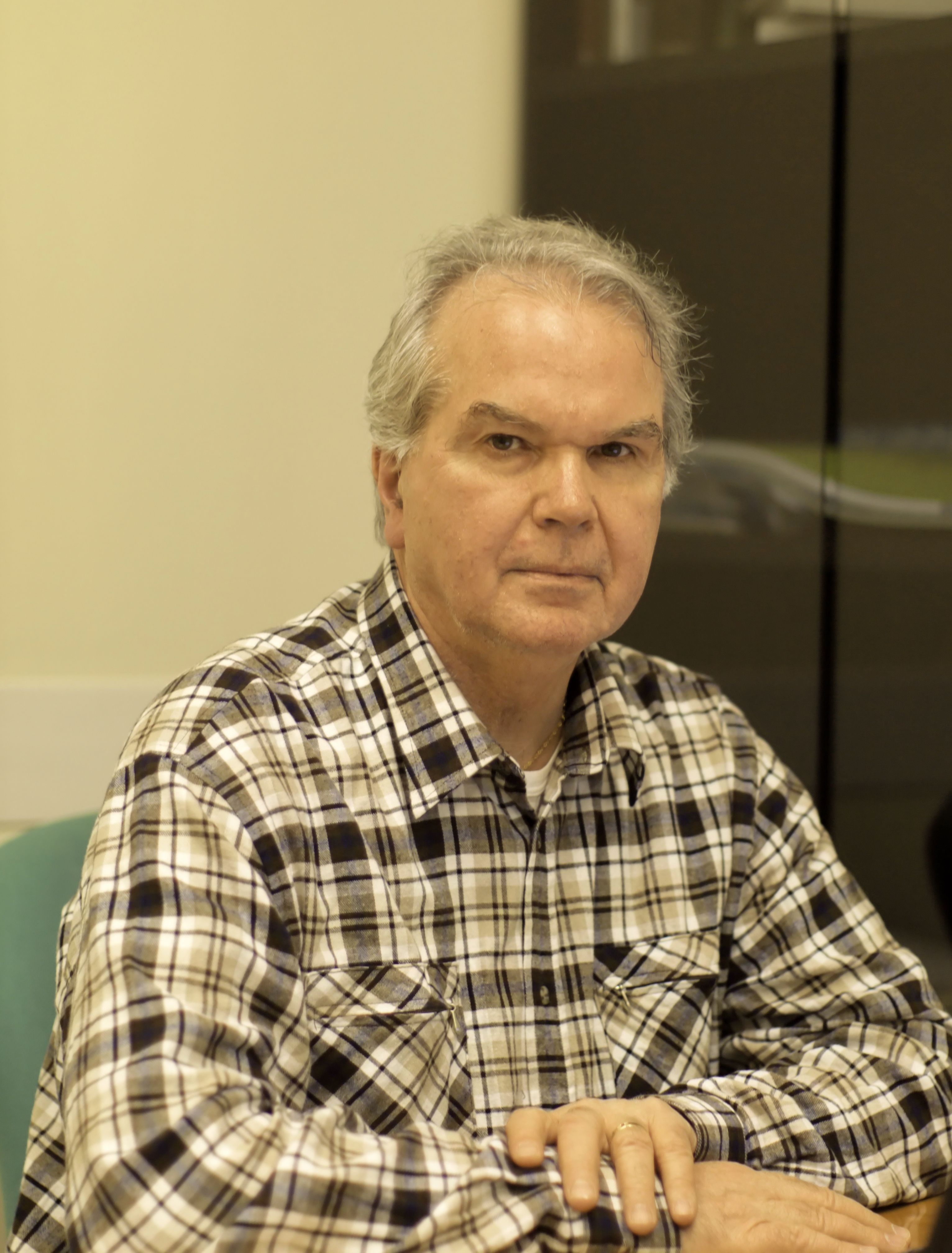 Dr. Eugenio Morelli during a public meeting